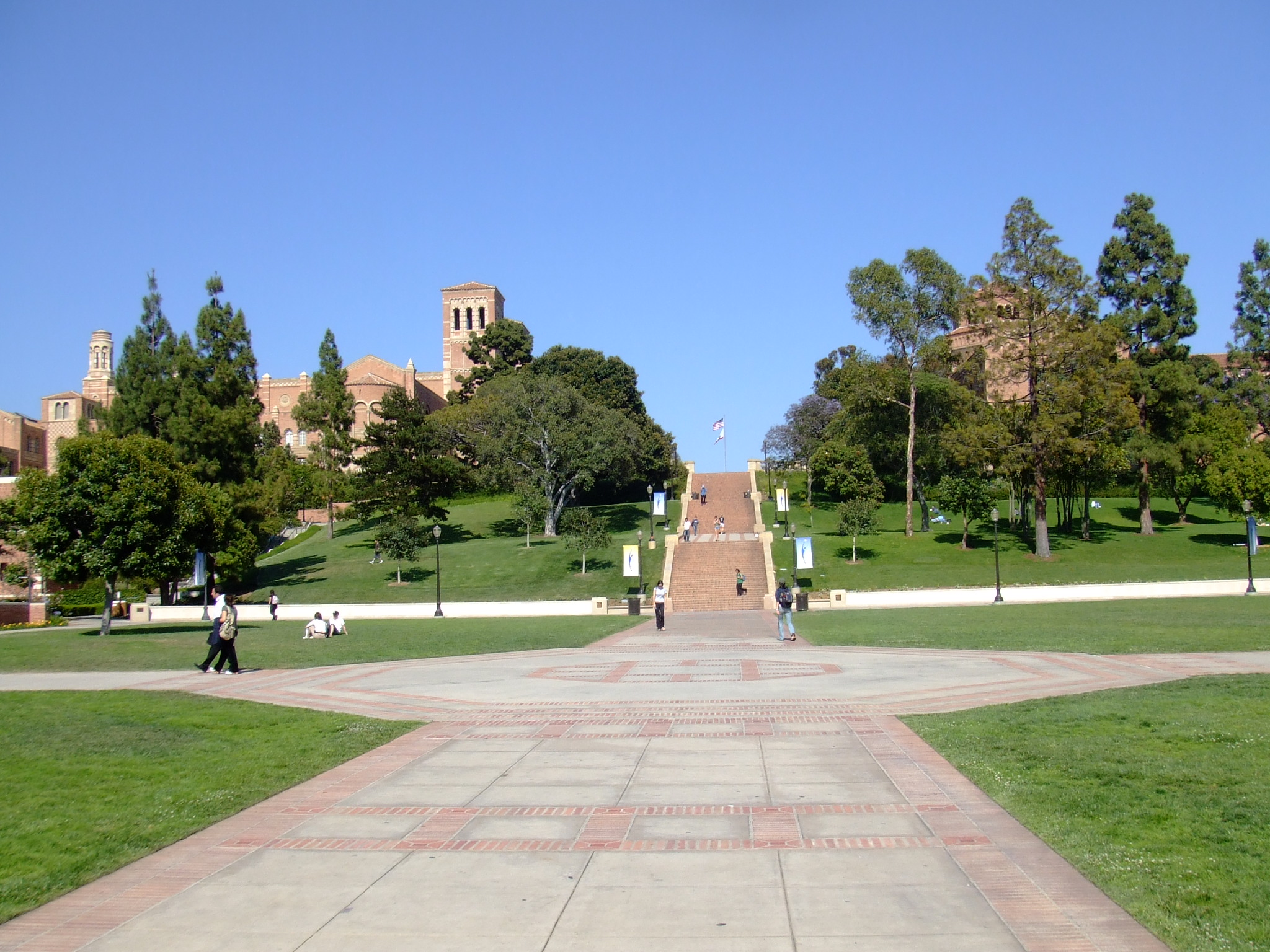 Wilson Plaza at UCLA, looking east at Janss Steps